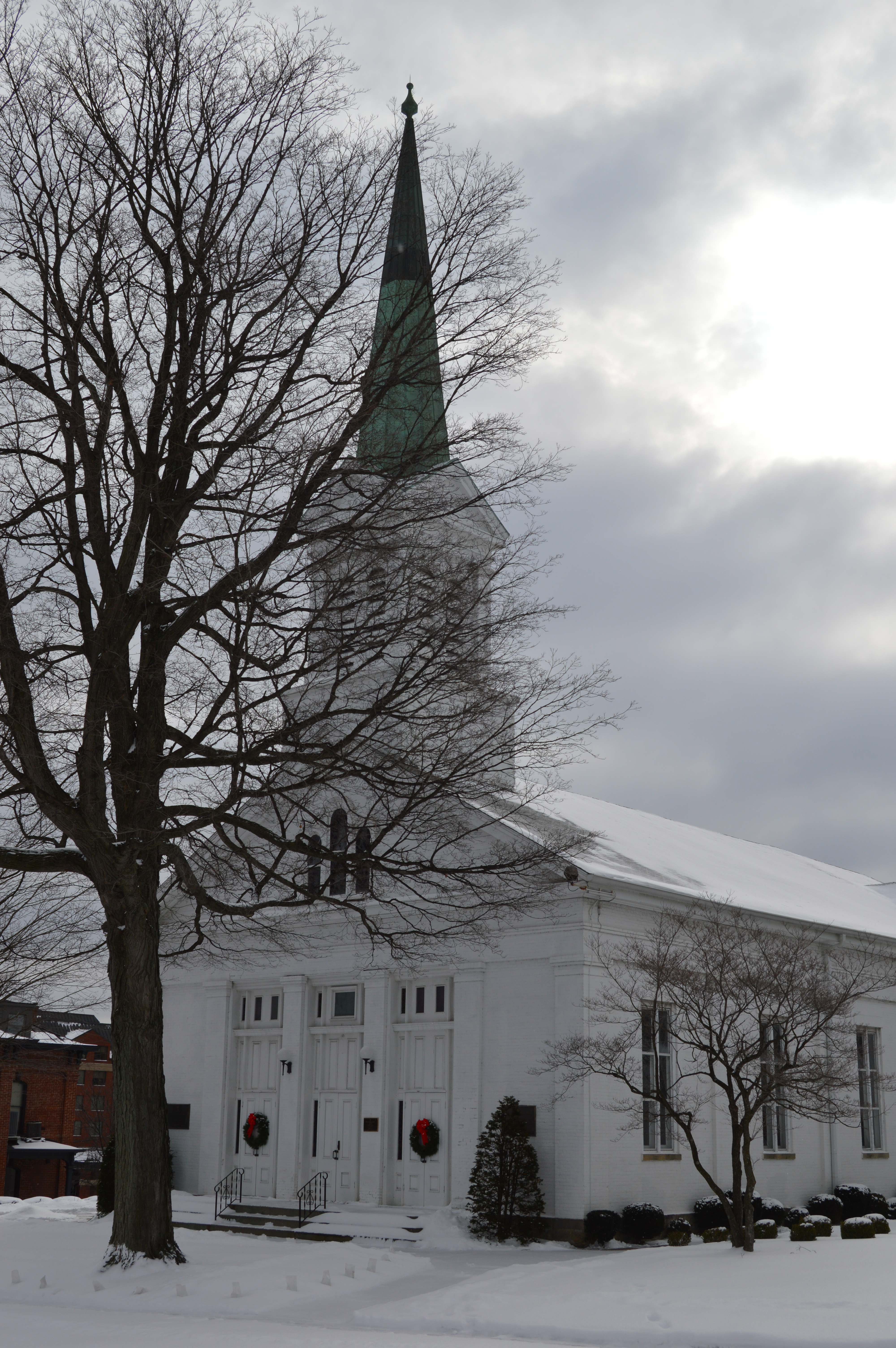 Front and western side of the First Congregational Church of Cuyahoga Falls, located at 130 Broad Boulevard in Cuyahoga Falls, Ohio, United States. Built in 1847, it is listed on the National Register of Historic Places.